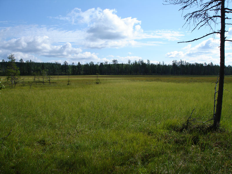 Stormyran SW Stenberg, Nordmalings municipality, Sweden. Open mire, poor in minerals. Carex lasiocarpa dominating in the foreground.